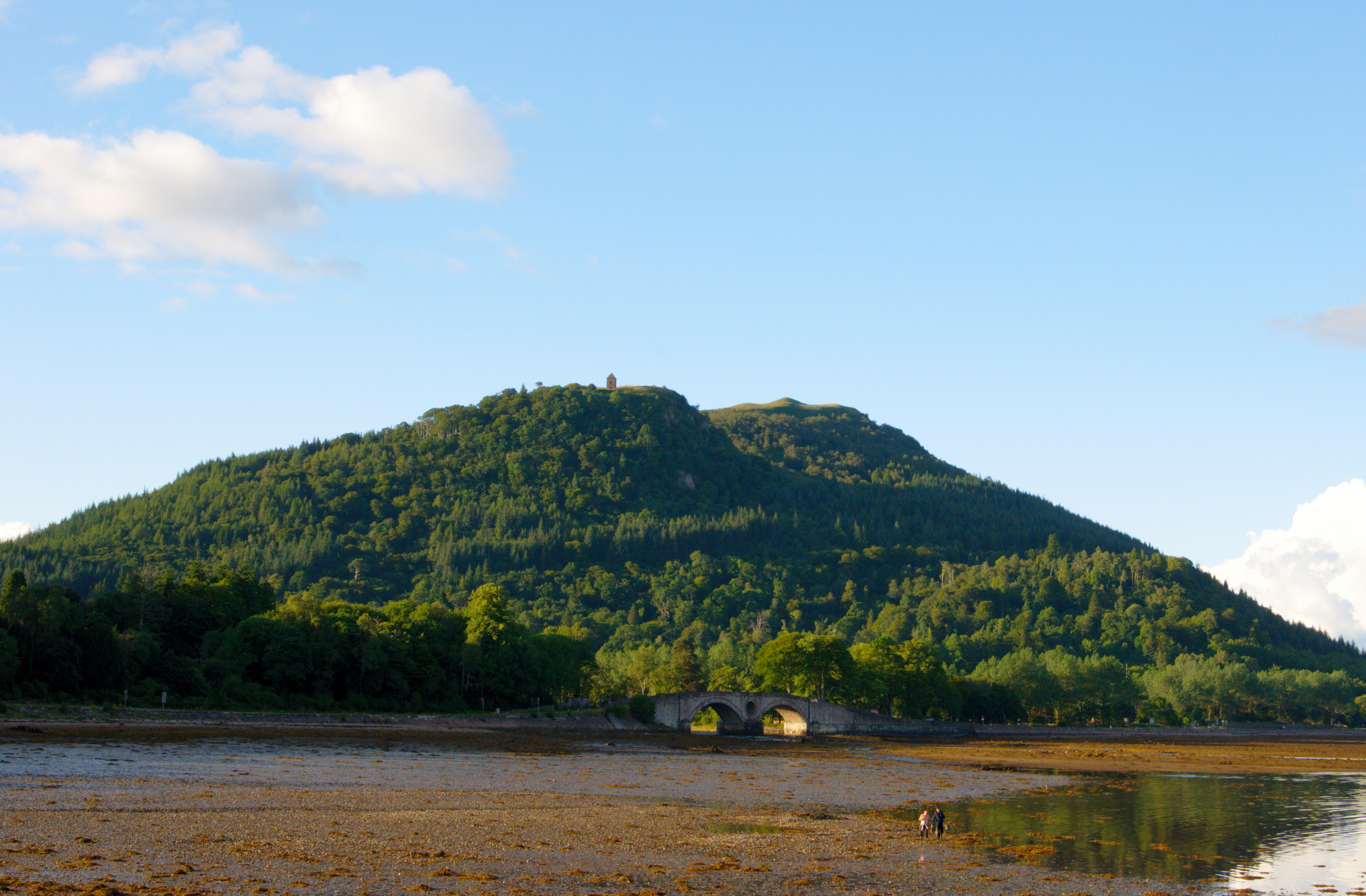 Dun na Cuiache above Aray Bridge, seen from Inveraray. On top of the hill the watchtower of 1748, belonging to Inveraray Castle